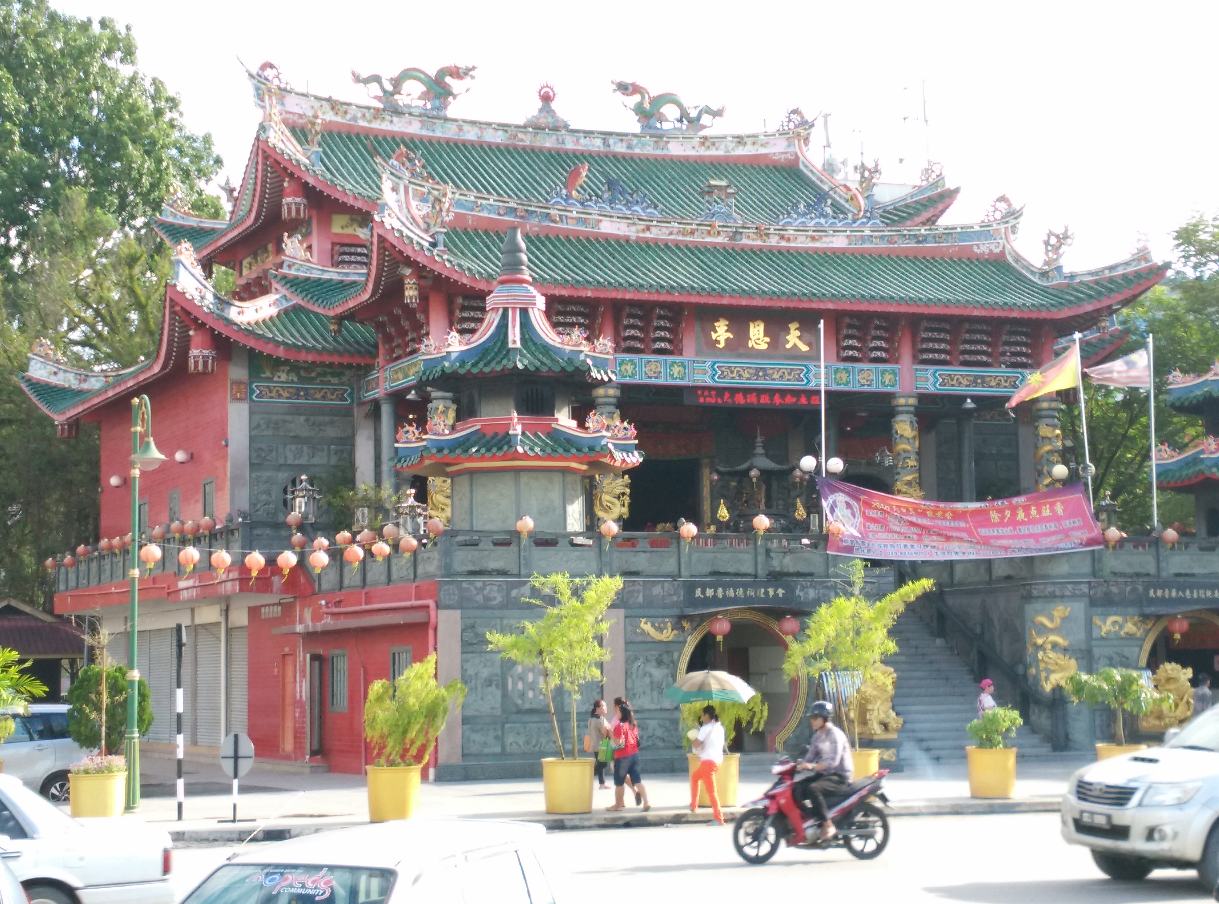 Tua Pek Kong Temple, Bintulu, Sarawak